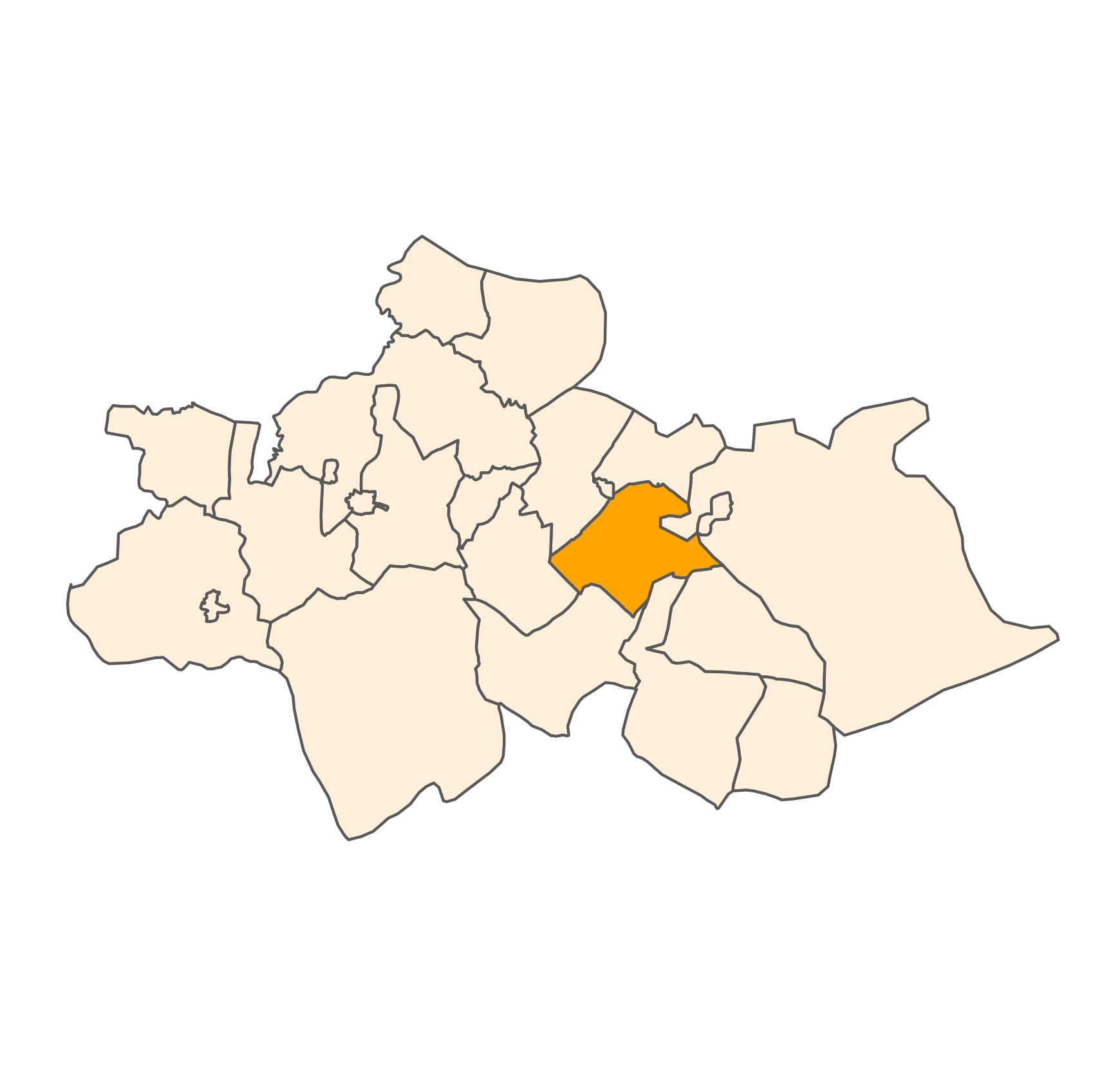 Commune (Orange), Sefrou Province (Antique White)